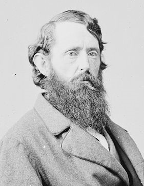 B. Gratz Brown. Library of Congress description: "Hon. Benj. G. Brown, MO."